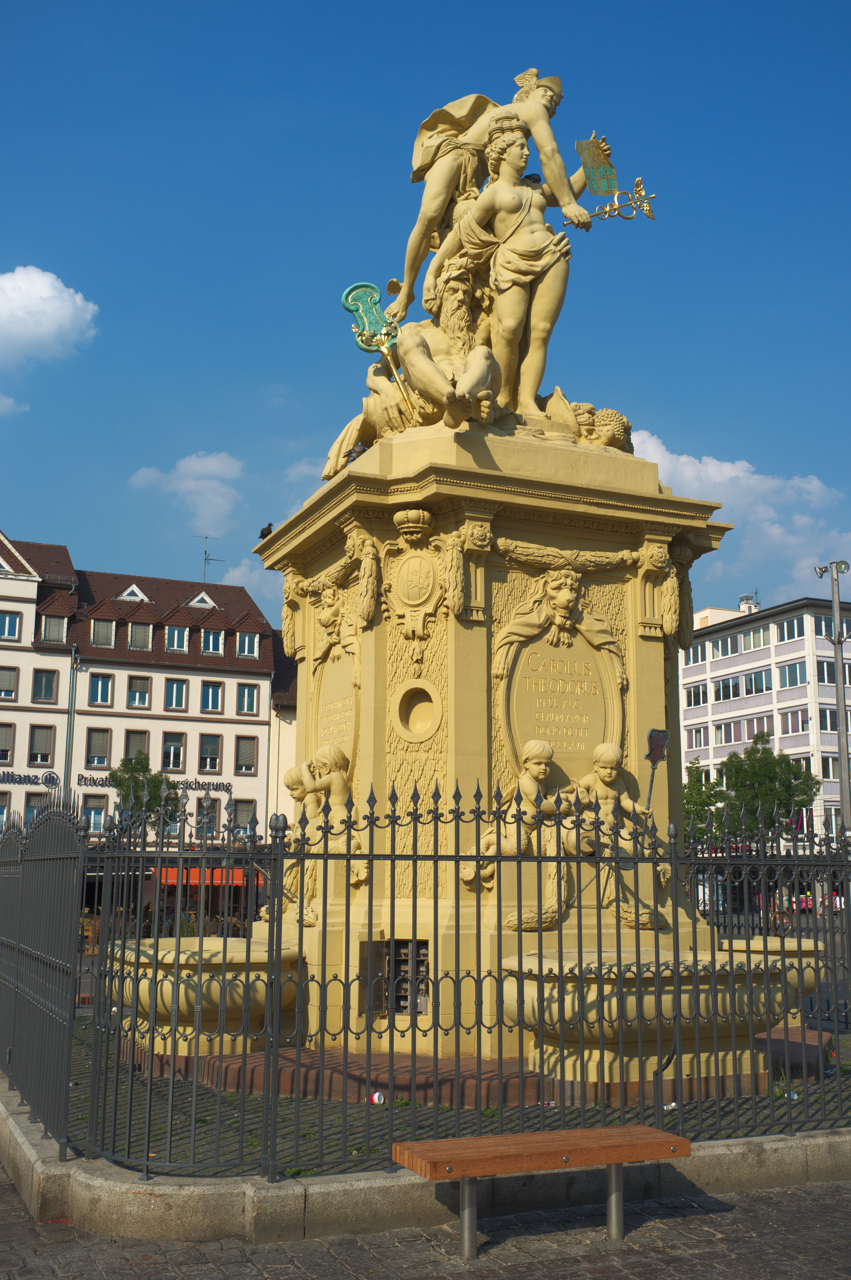 Statue of the "Marktplatzbrunnen" at the marketplace in Mannheim after its recent renovation in 2009/2010.